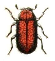 Endecatomus reticulatus, from Calwer's Käferbuch, Table 29, Picture 6. Taxonomy was updated to 2008, using mostly the sites Fauna Europaea and BioLib. Please contact Sarefo if the determination is wrong!